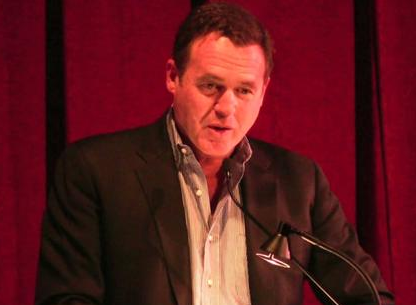 On prmotional tour for Miracle on The Hudson